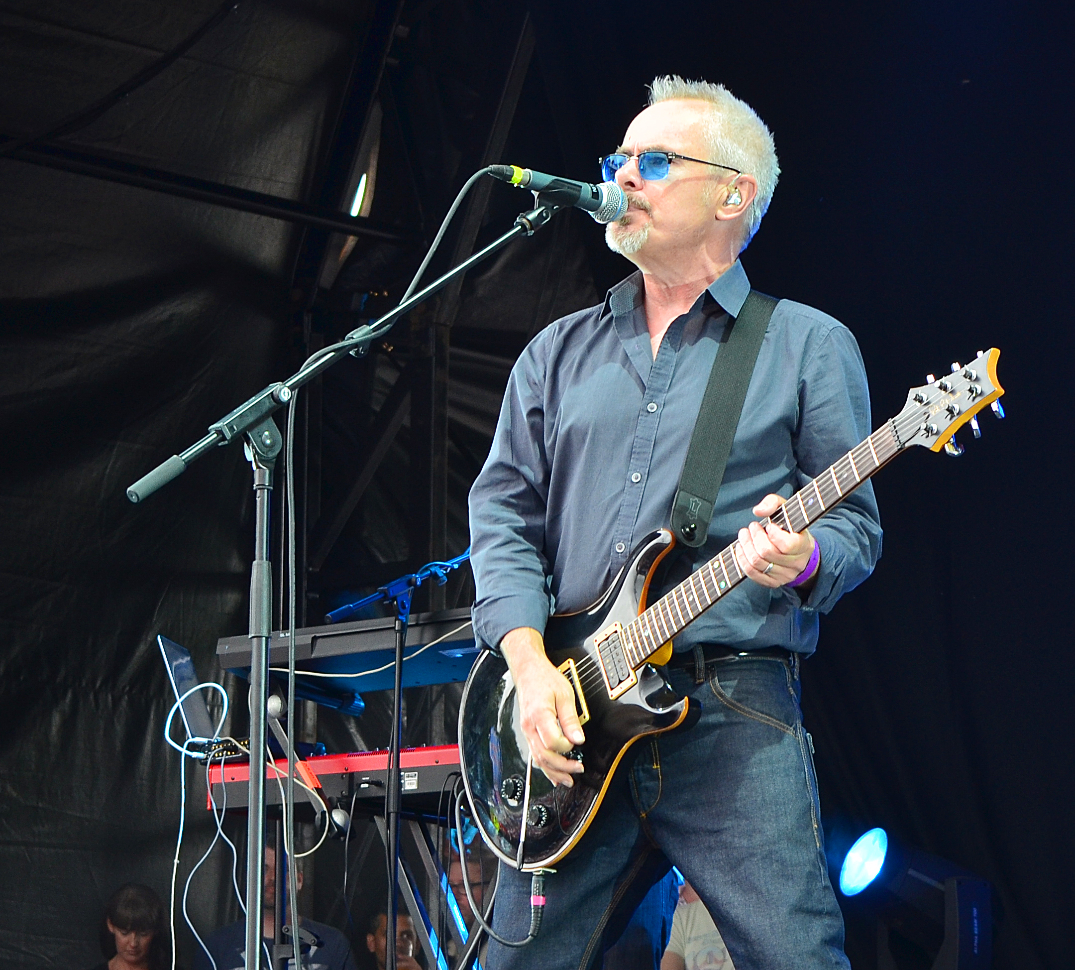 Let's Rock Bristol took place at The Ashton Court Estate, Bristol, 6-8 June 2014. It was attended by over 10,000 people. The festival included the following (mainly British) artists: Then Jerico, Brother Beyond, Bananarama, Tony Hadley, Belinda Carlisle, Alexander O'Neil, Go West, Boney M, Midge Ure, Heaven 17, The Christians, China Crisis, Doctor and The Medics, Sonia, Jaki Graham, Carol Decker of T'Pau, Level 42, Rick Astley, Kim Wilde, ABC, Nik Kershaw, Matt Bianco, Imagination, The Blow Monkeys, Toyah and Johnny Hates Jazz.